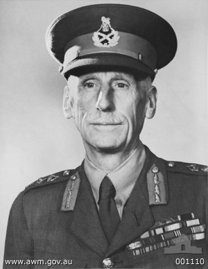 Portrait of General Sir Cyril Brudenell Bingham White KCB KCMG KCVO DSO.